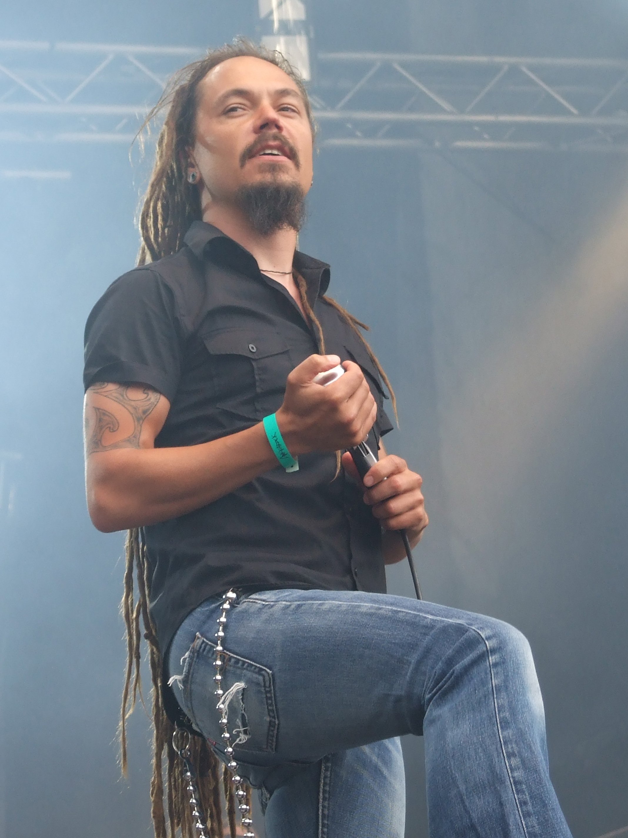 Tomi Joutsen performing live with Amorphis at Ankkarock 2008 in Vantaa, Finland. Photo: Tina Solda